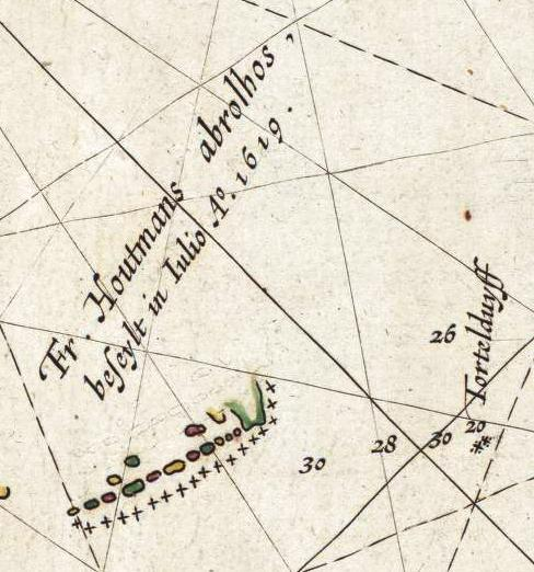 This is an image showing detail of the National Library of Australia's copy of Hessel Gerritsz' 1627 map of the north west coast of Australia entitled "Caert van't Landt van d'Eendracht". This detail shows features labelled "Fr. Houtman's abrolhos" and "Tortelduyff"; this is significant because it represents the first known use in print of the name of the Houtman Abrolhos, although not the first time this archipelago was charted; and because it represents the first known charting of the Turtle Dove Shoal.